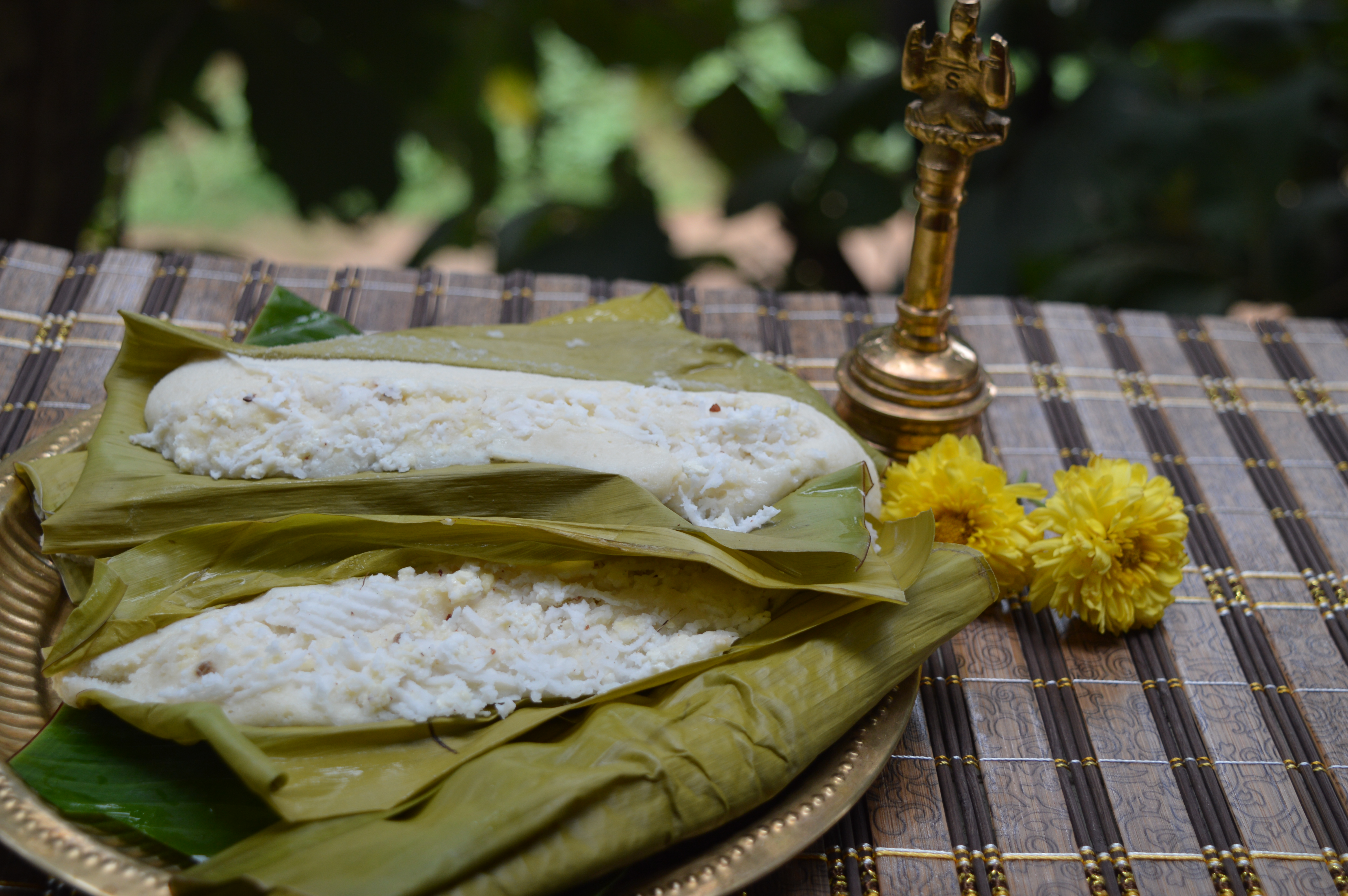 A stuffed delicacy made during Prathamashtami in Odisha !!